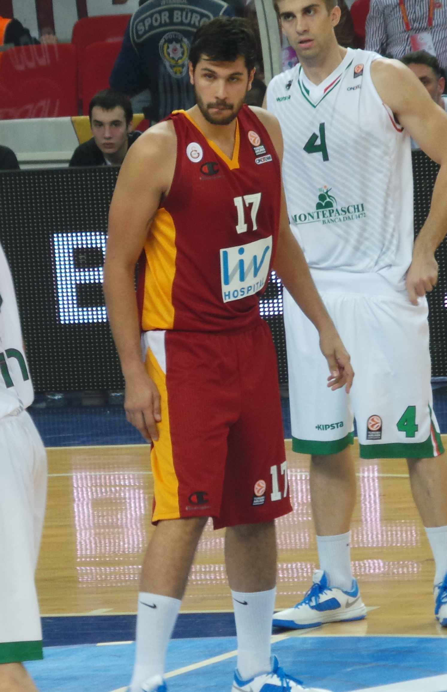 Cenk akyol'13